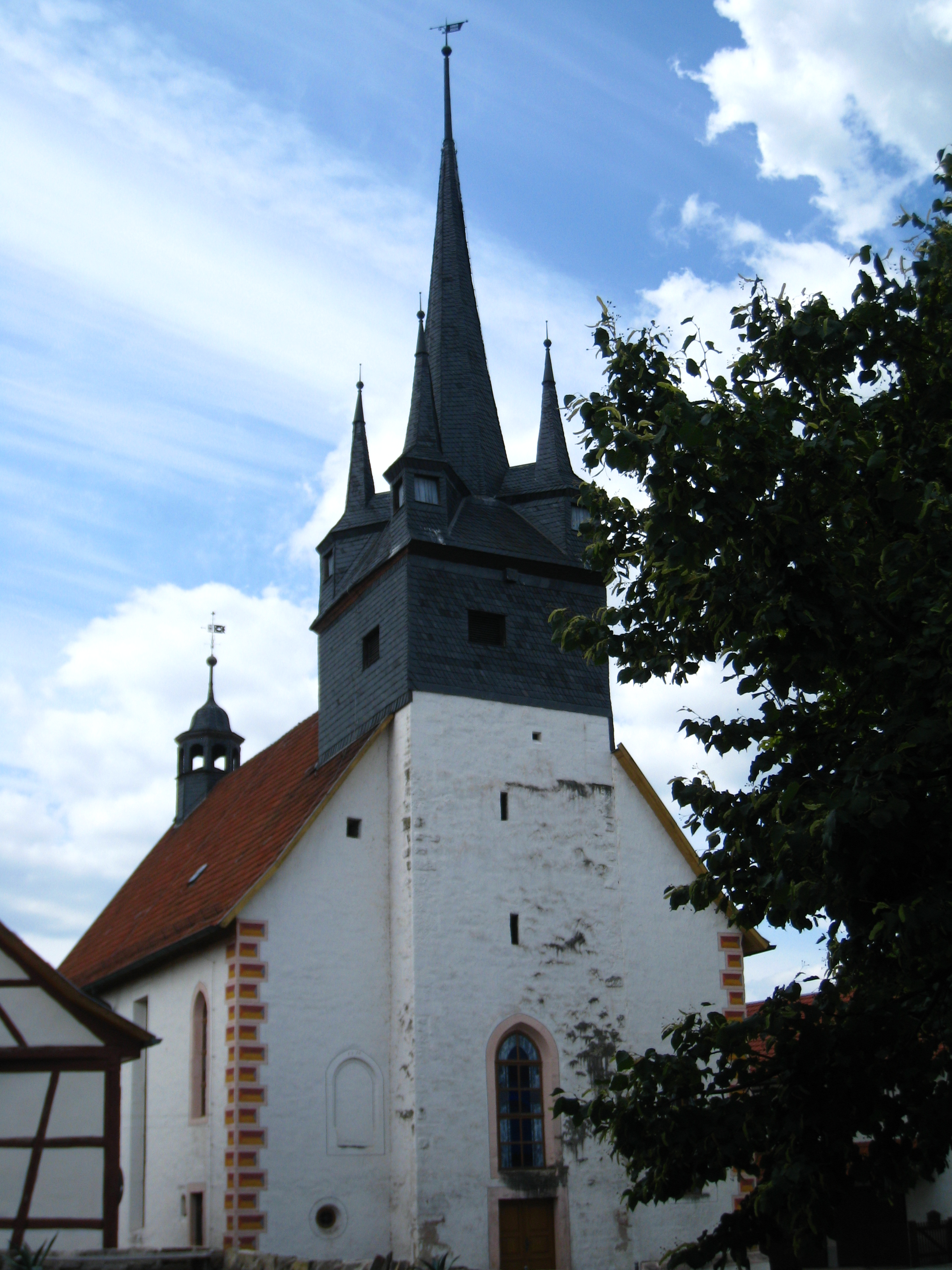 Evangelist Church in Schwallungen